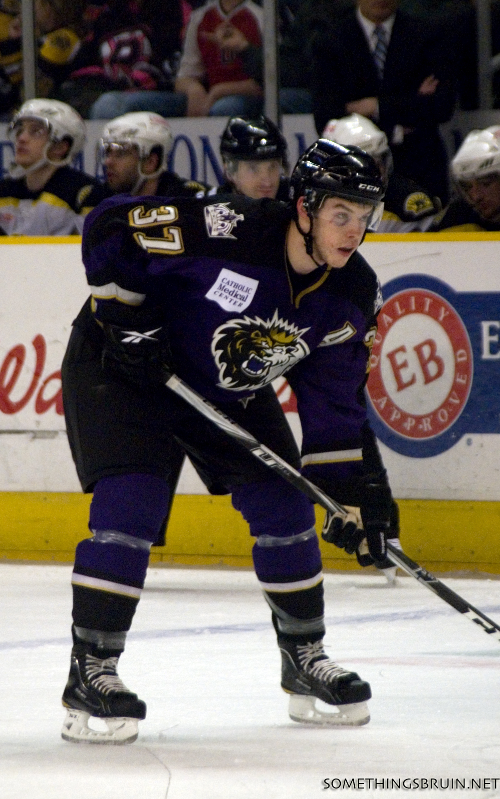 ERI_4018 Manchester Monarchs versus Providence Bruins. American Hockey League (AHL). Taken by Sarah Connors on January 23, 2011 using a Nikon D200. This photo also appears in Sarah Connors' Flickr set "Manchester @ Providence, 1/23/11" (Set of 98).